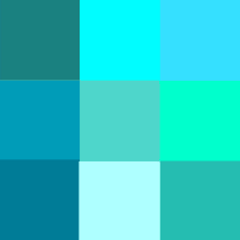 palette of varieties of cyan